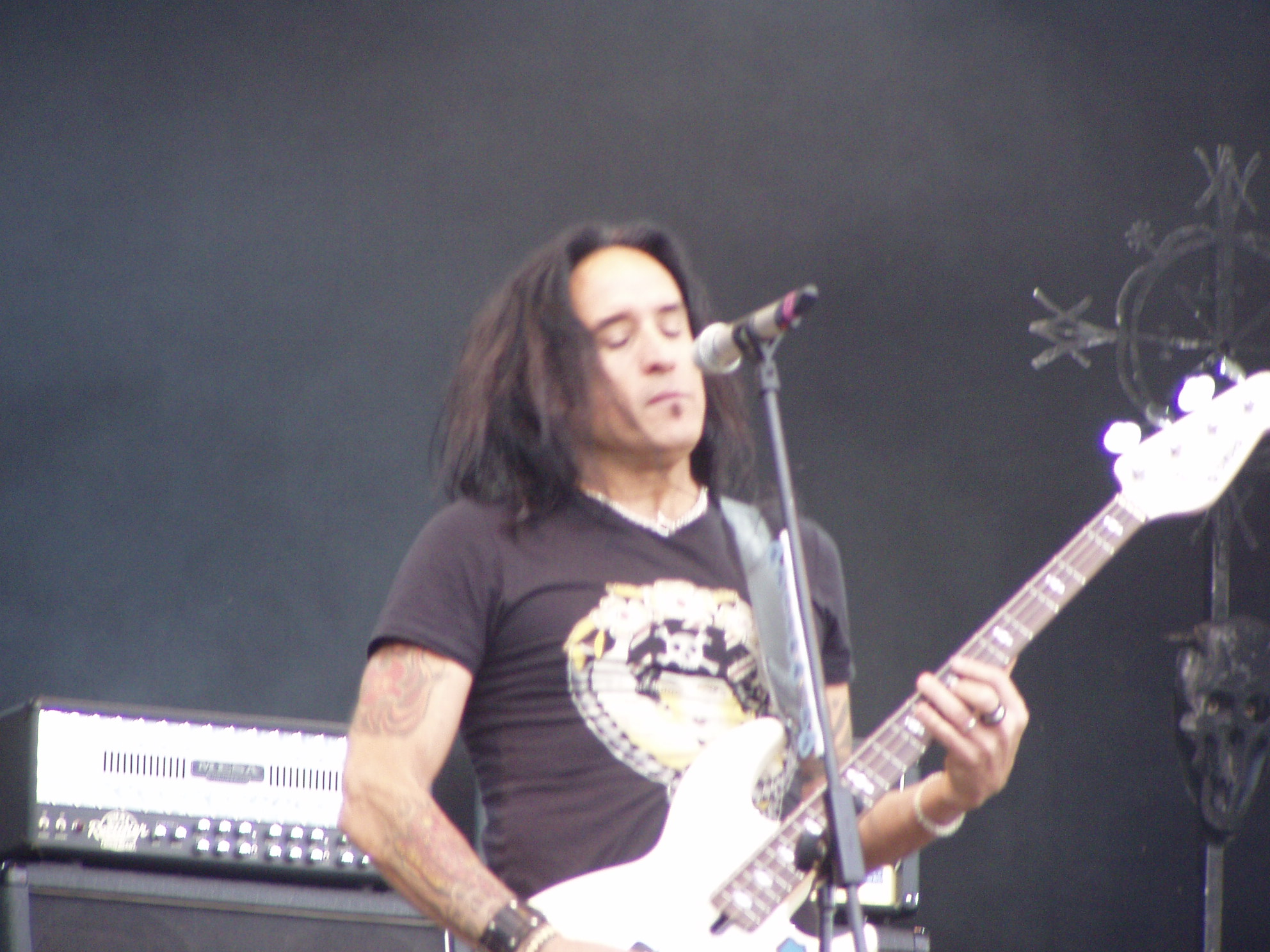 I Thin Lizzy al Gods of Metal 2007